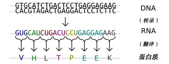 Chinese translation of Genetic code.svg